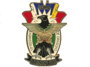 Badge of the 13th Parachute Dragoon Regiment during Operation Manta (Chad).